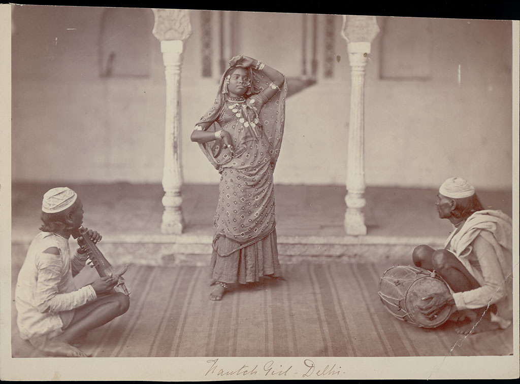 Nautch girl dancing in costume with ornaments, while two men playing string Instrument and drum nearby - Charles Shepherd